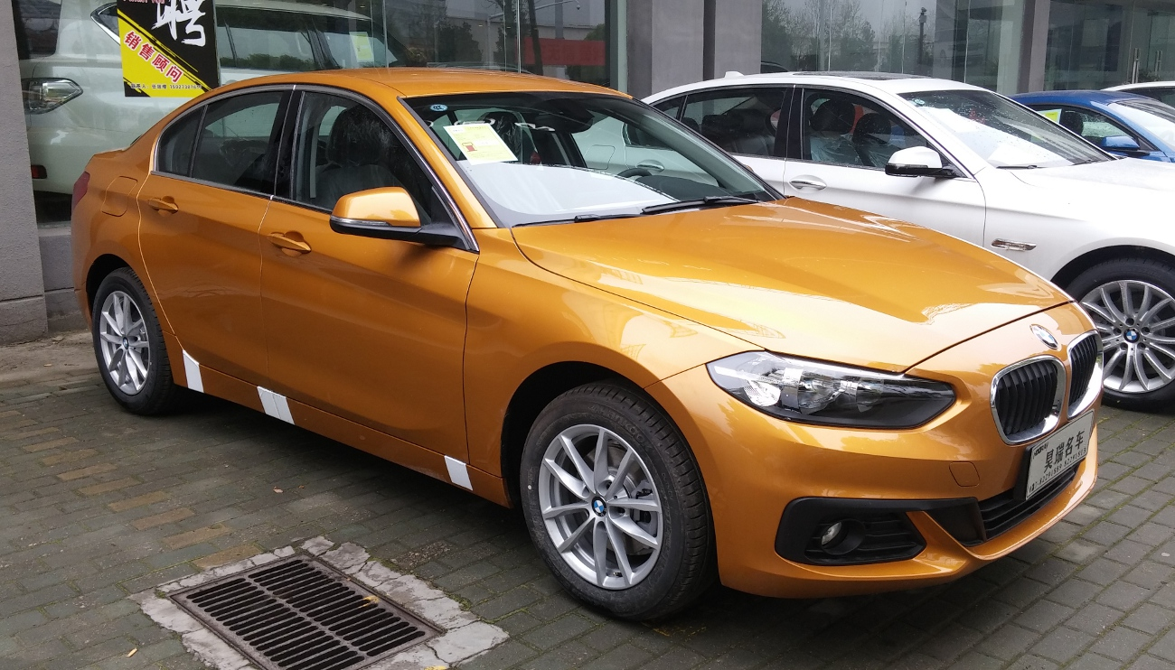 BMW 1-Series F52 photographed in Wuhan, Hubei province, China.